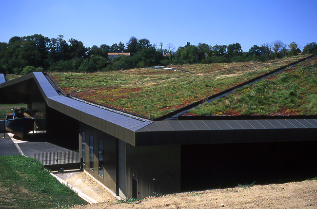 This is a scan from a 35mm transparency which I took in August 2005 at the Historial de la Vendée in Les-Lucs-sur-Boulogne, France. It shows the green roof (planted about four months earlier) of the new regional museum (due to open in 2006). This scan is in the Public Domain (however, I retain ownership and copyright of the original transparency and any higher-resolution scans derived from it). If this image is used outside Wikipedia a photographer's credit (Simon Garbutt) would be much appreciated! SiGarb 16:53, 11 December 2005 (UTC)